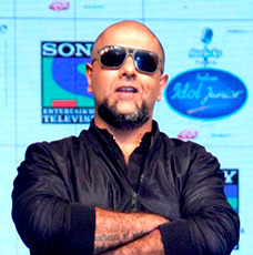 Vishal Dadlani graces the launch of Indian Idol Junior